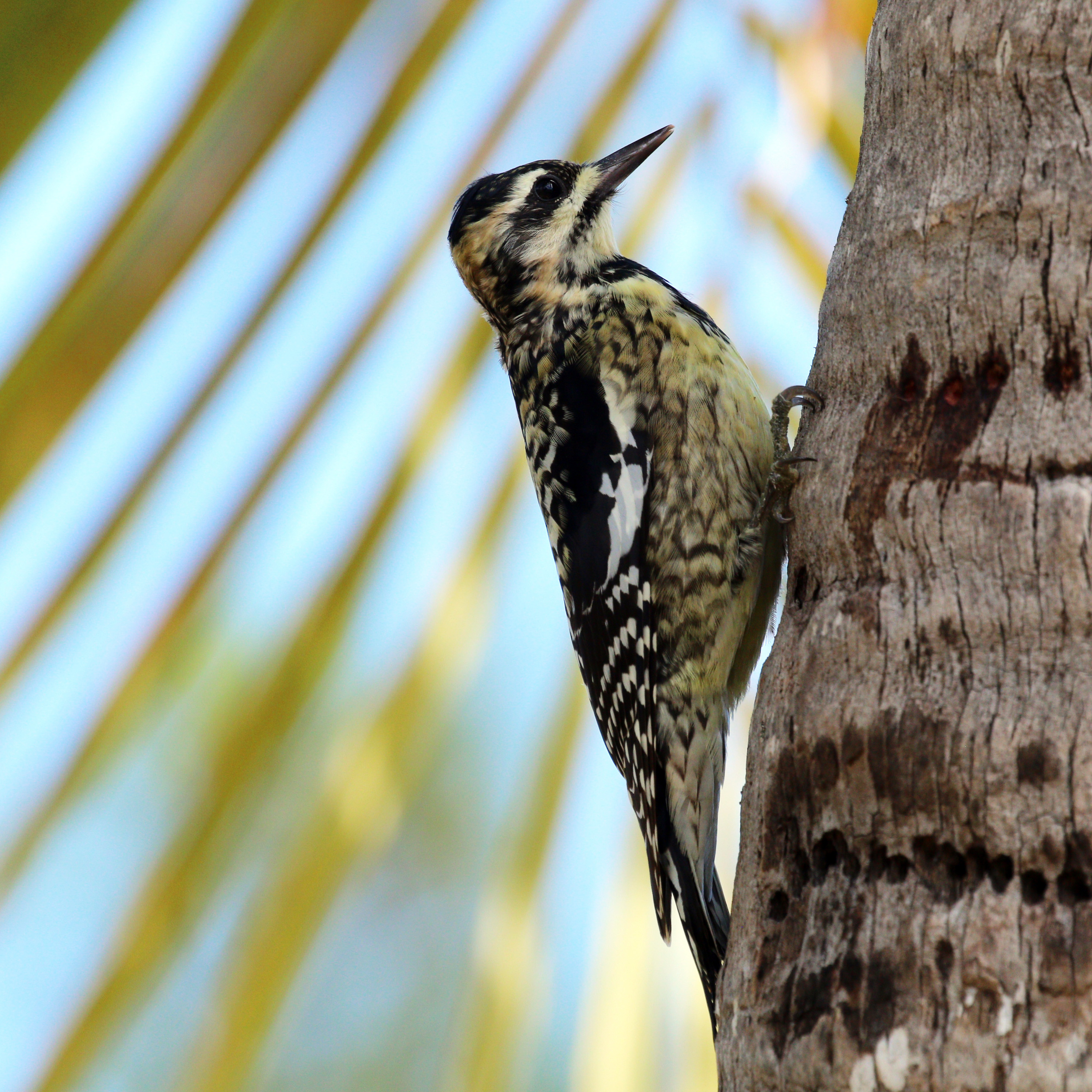 Yellow-bellied sapsucker (Sphyrapicus varius) juvenile, Cuba